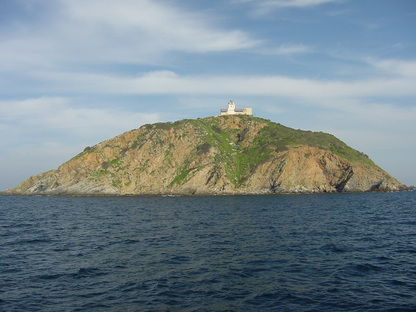 Palmaiola island, front view from south-east, Italy